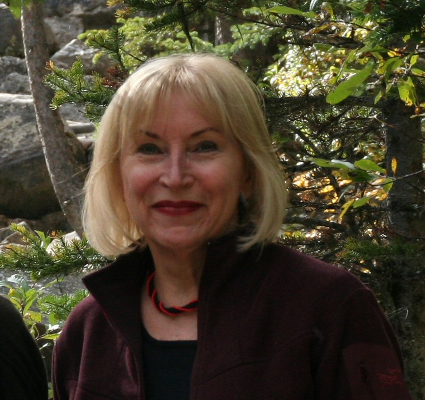 Photo of Karla Poewe